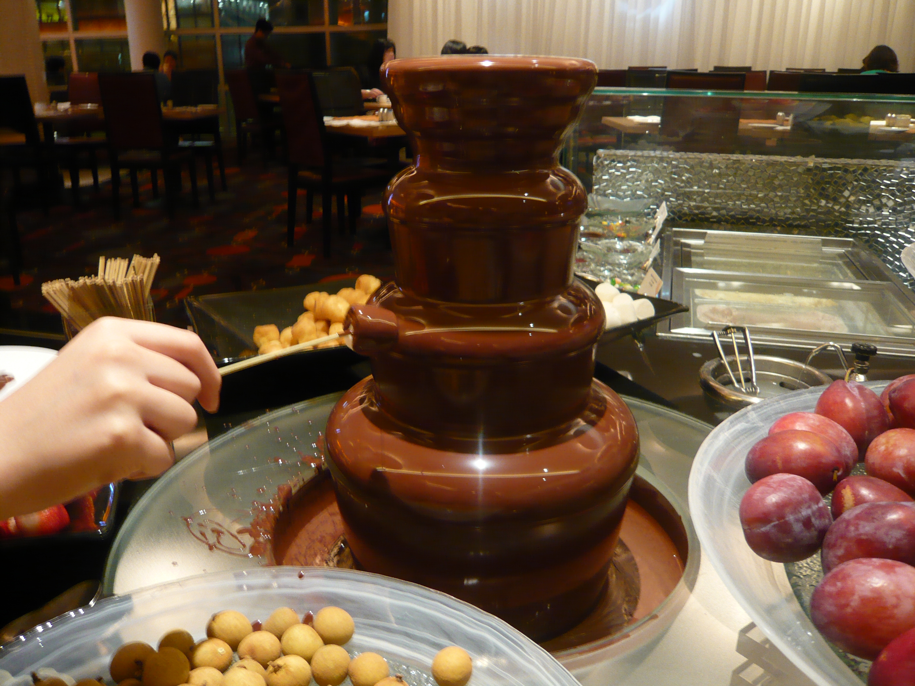 A chocolate fountain in Hong Kong